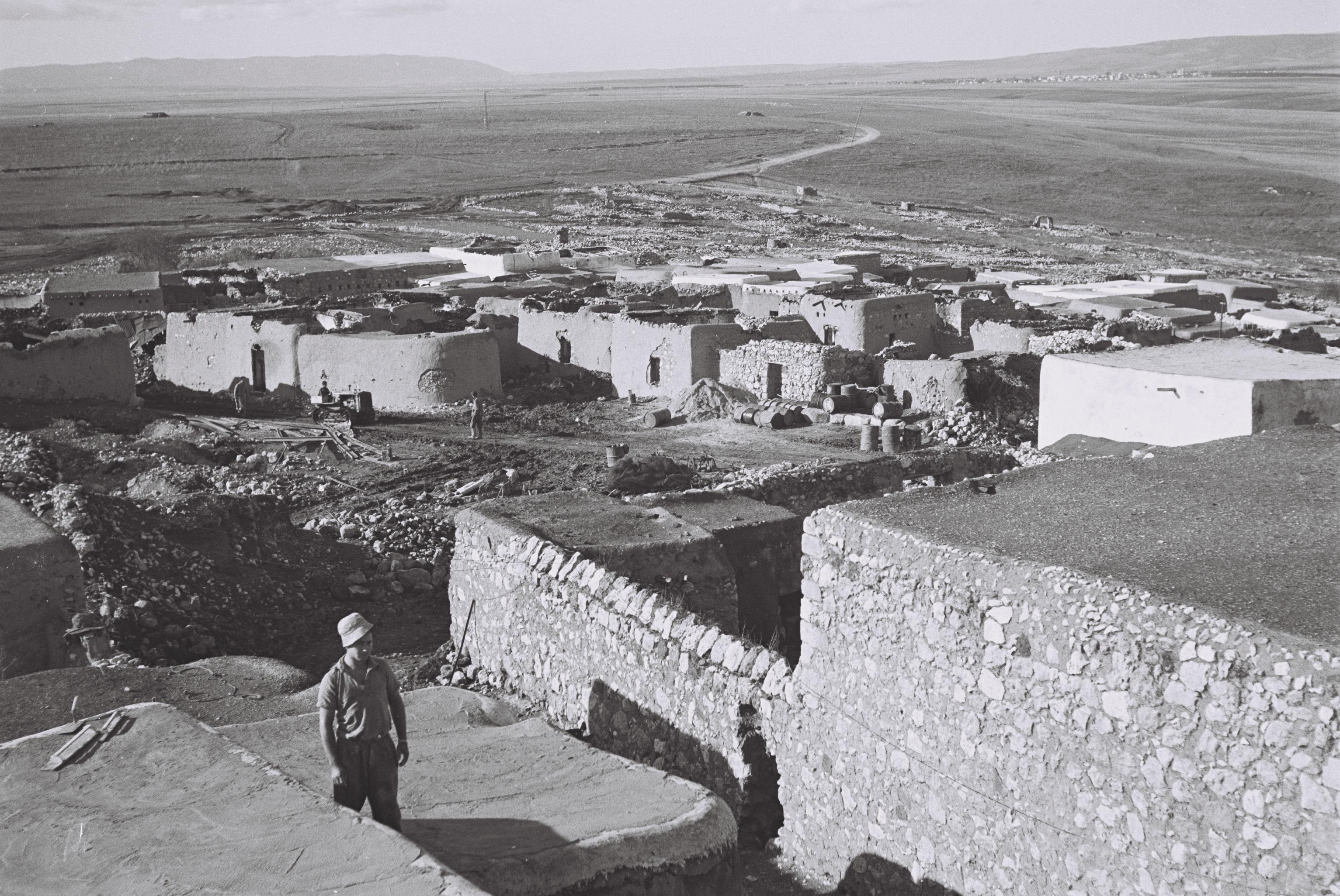 Original Description: A MEMBER OF KIBBUTZ JEZREEL STANDING ON THE ROOF OF ONE OF THE BUILDINGS IN THE ABANDONED ARAB VILLAGE ZARIN IN THE JEZREEL VALLEY.